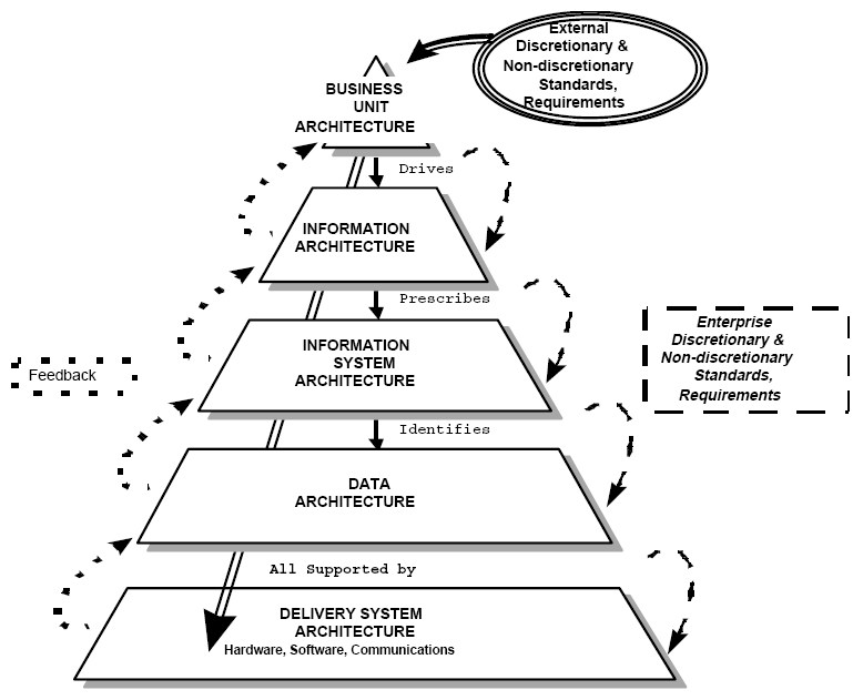 NISTs Enterprise Architecture Model